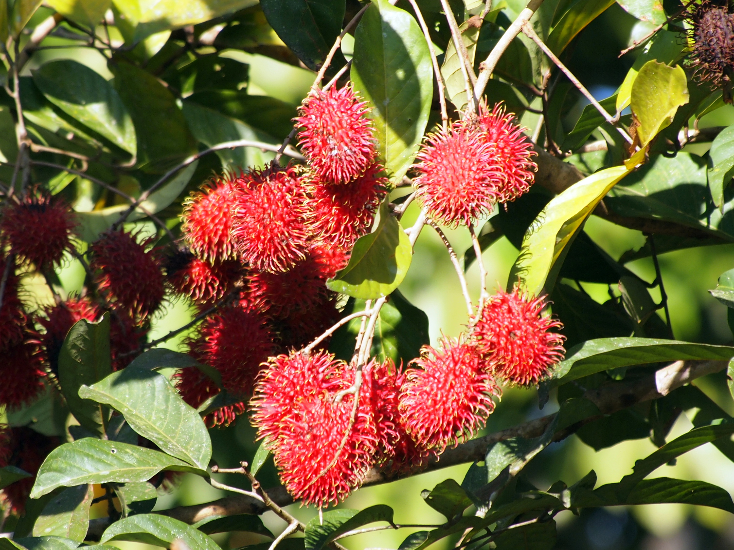 Ripe Nephelium lappaceum